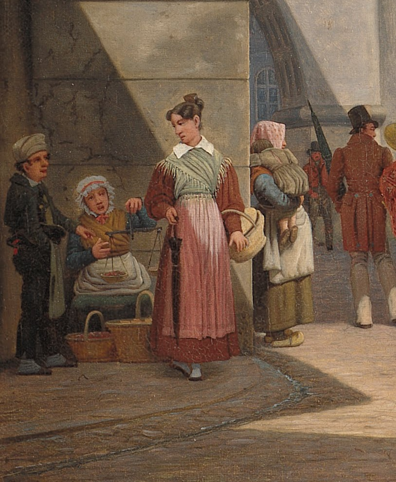 Part of Martinus Rørbye's painting 'The prison of Copenhagen' with a tradescene and female beggar.